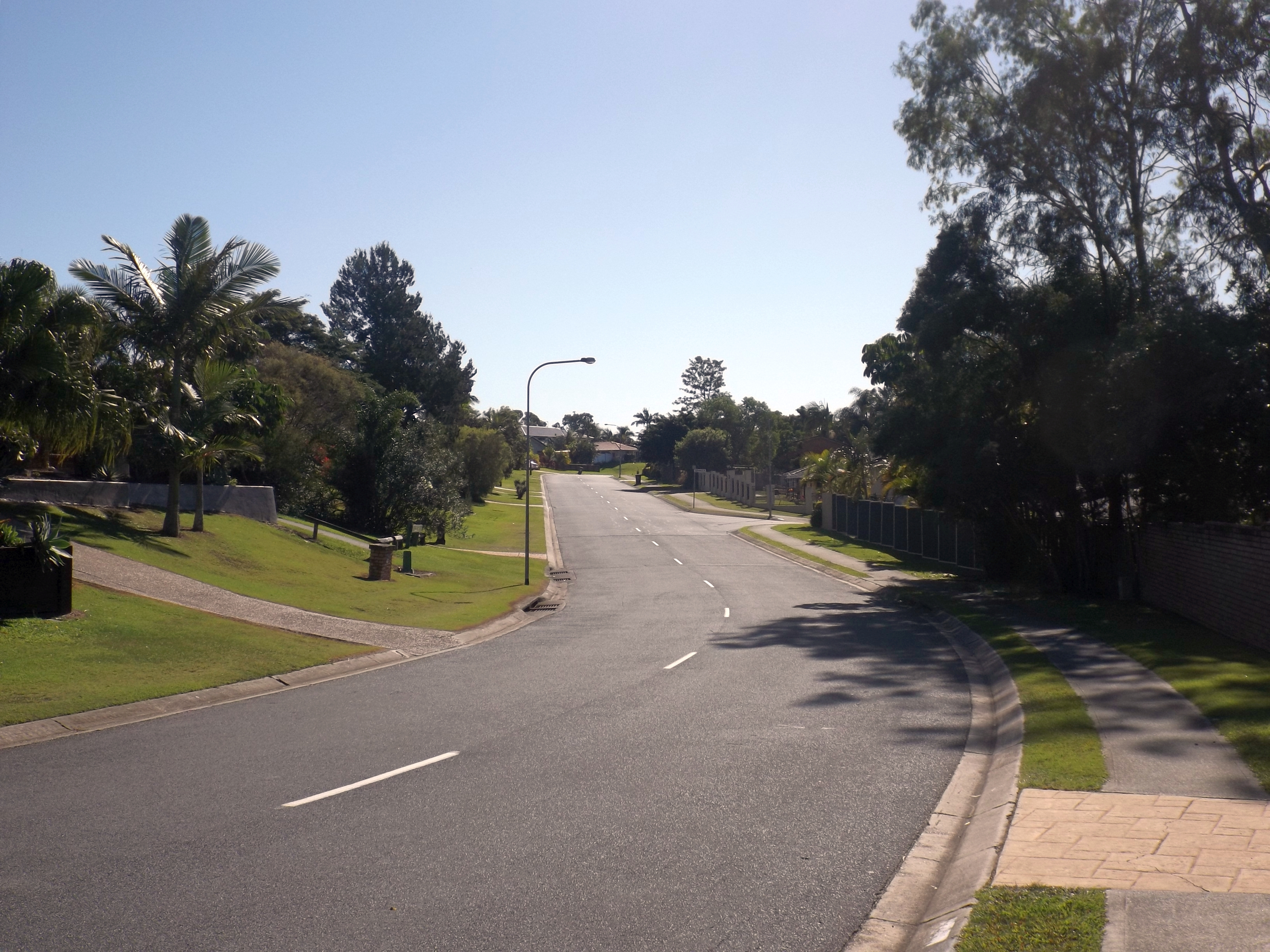 Photo of Latrobe Avenue at Helensvale, Gold Coast, Queensland, Australia.